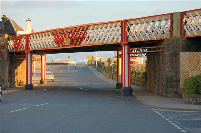 Burntisland viaduct Burntisland Viaduct was constructed in 1888 and carries the main line from Edinburgh to Dundee. It comprises nine spans of half-through construction with wrought iron lattice main girders on each elevation supporting trough decking and ballasted track. The span geometry varies throughout. Six spans are simply supported on masonry piers, but the easternmost three are continuous over intermediate cast iron columns. The viaduct is a category C listed structure and forms a significant feature within the harbour area.